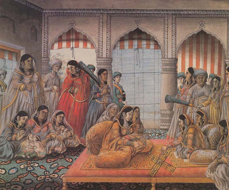 "Senior wives playing Chaupar (Lucknow, c.1790)." Senior wives playing chaupar (Lucknow, c.1790) Source: A Second Paradise: Indian Courtly Life 1590-1947, by Naveen Patnaik (New York: Metropolitan Museum, 1985), p. 72; scan by FWP, Sept. 2001. "Senior Wives Playing Chaupar in the Court Zenana with Eunuchs; possibly by Navasi Lal after a lost original by Tilly Kettle. Mughal, Lucknow; ca. 1790; 18 x 10.5 cm. James Ivory Collection."